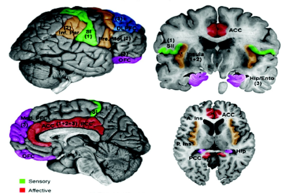 Examples of CNS Functional Measures. A. Schematic of cortical areas involved with pain processing. The highlighted areas summarize areas found active in previous functional imaging studies. Color-coding reflects the hypothesized role of each area in processing the different psychological dimensions of pain. Numbers in parentheses indicate the relative involvement of these areas during different temporal stages of the pain experience. Areas displayed include insula, anterior cingulate cortex (ACC), posterior cingulate cortex (PCC), primary somatosensory cortex (SI), secondary somatosensory cortex (SII), inferior parietal lobe (Inf. Par), dorsolateral prefrontal cortex (DLPFC), pre-motor cortex (Pre-Mot), orbitofrontal cortex (OFC), medial prefrontal cortex (Med. PFC), posterior insula (P. Ins), anterior insula (A. Ins), hippocampus (Hip), entorhinal cortex (Ento). [Reprinted with permission from Casey and Tran, 2006]. For examples of brainstem involvement in pain processing, please refer to Tracey and Iannetti ([52]). B. Example of fMRI responses to painful phasic thermal stimulation to the forehead in a cohort of 12 subjects. (Moulton et al., unpublished observations). Borsook et al. Molecular Pain 2007 3:25